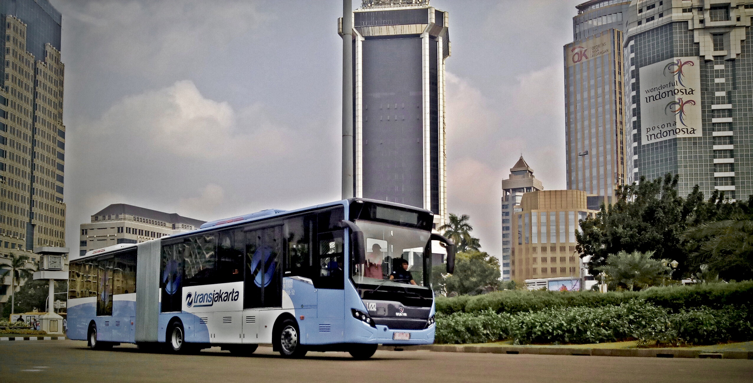 Transjakarta Scania K320iA with Laksana CItyline2 body from Laksana Carroserie